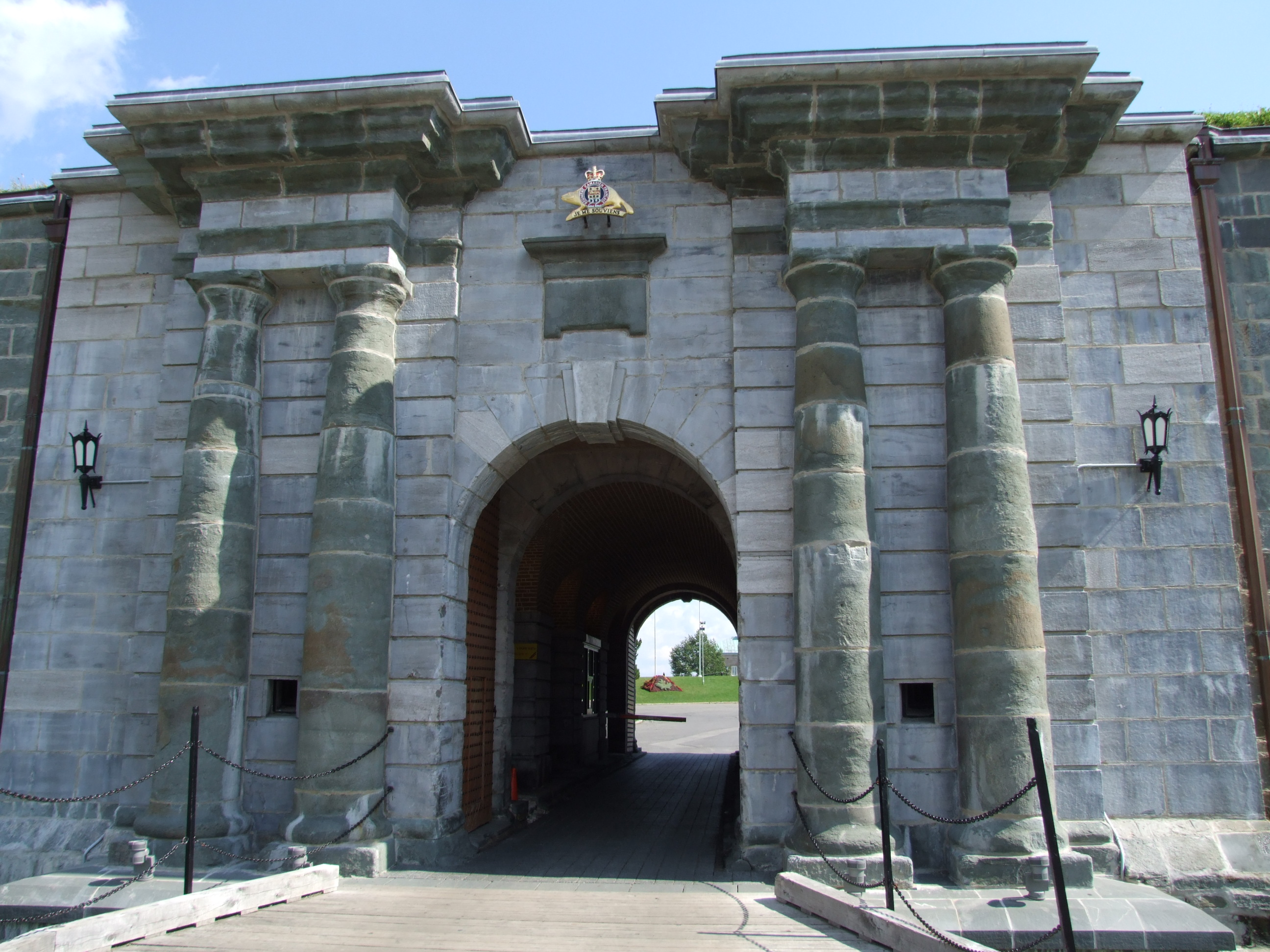 Québec, Quebec, Canada. Citadel gate, seen from outside.